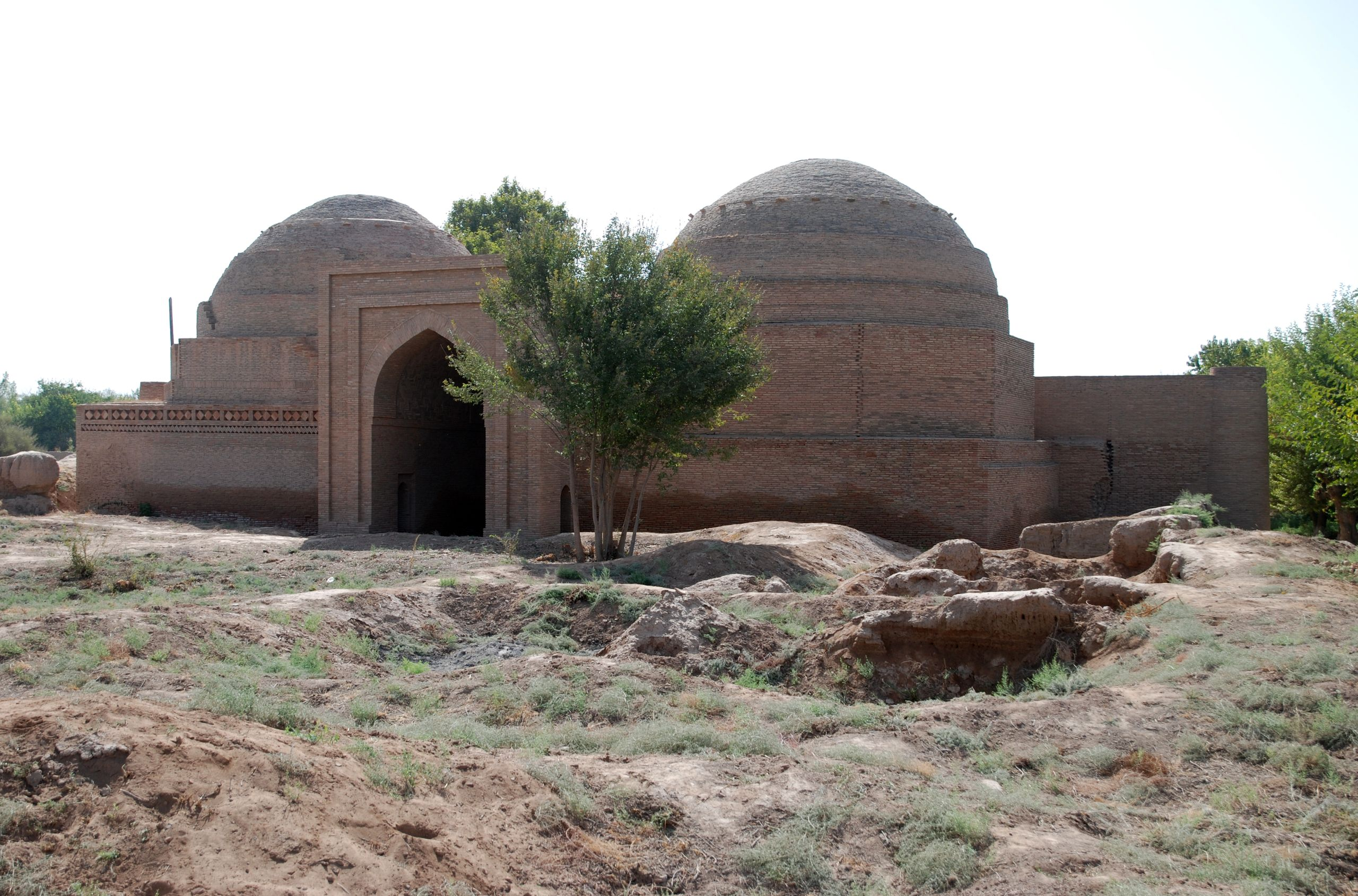 Khoja Mahshad, near Shahrituz, north side